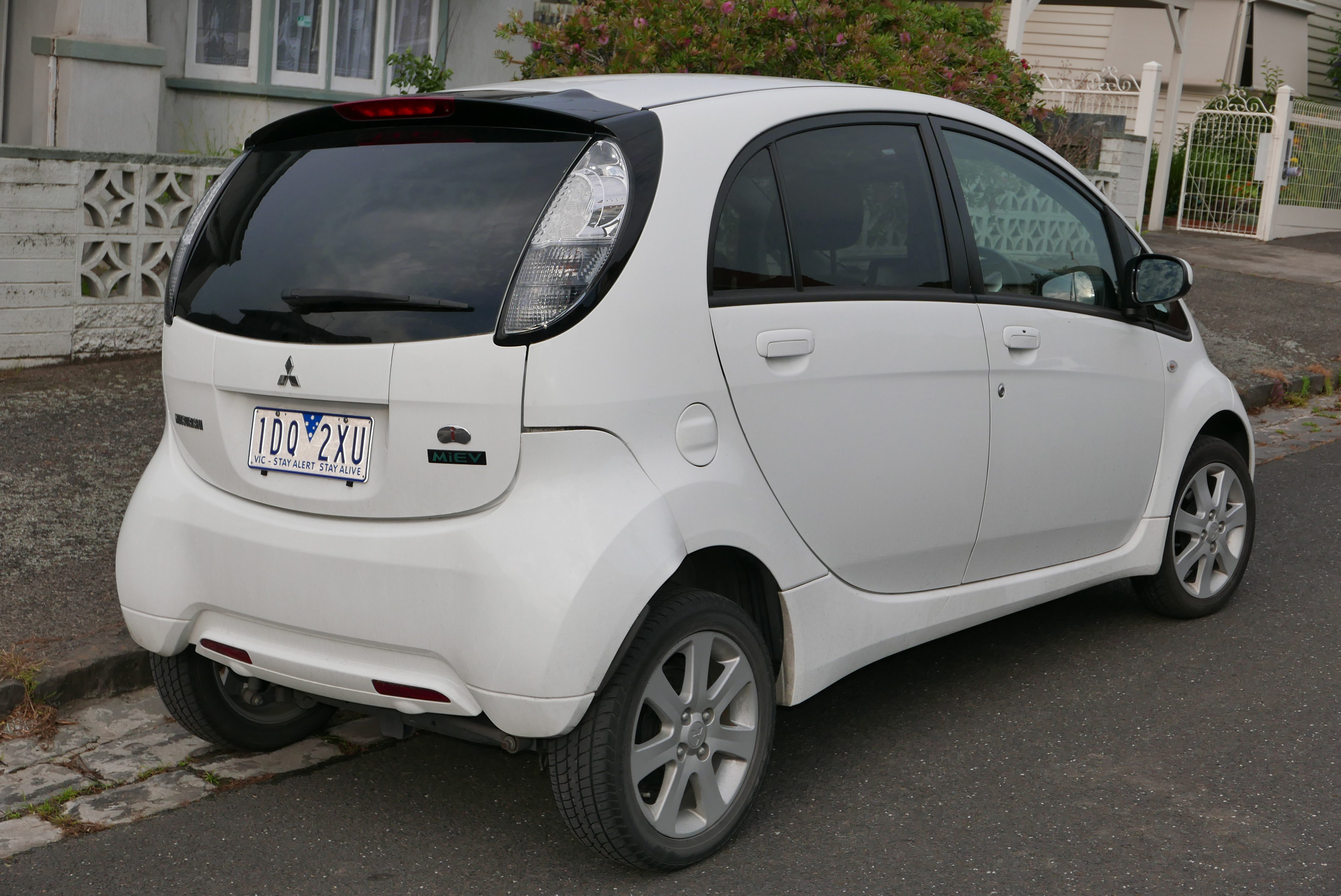 2010 Mitsubishi i-MiEV (GA MY10) hatchback. Photographed in Brunswick West, Victoria, Australia. Vehicle registration enquiry resultsJurisdictionVictoriaRegistration1DQ2XUChassis codeJMFLDHA1WAU002876Engine codeY4F1MF02825Compliance date2010-08Year of manufacture2010